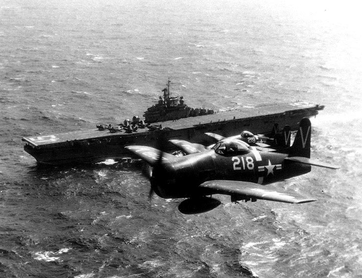 Four Grumman F8F-1 Bearcats of fighter squadron VF-12A Fighting Twelve flying past the aircraft carrier USS Valley Forge (CV-45) on 28 April 1948. The Valley Forge with Carrier Air Group Eleven (CVAG-11) aboard was on a world cruise from 9 October 1947 to 11 June 1948 from San Diego (California, USA) via the Suez and Panama Canals back to San Diego. Grumman TBM Avengers of VA-12A and Curtiss SB2C-5 Helldivers of VA-11A can be seen on deck. VA-12A was re-designated VF-112 on 15 July 1948.